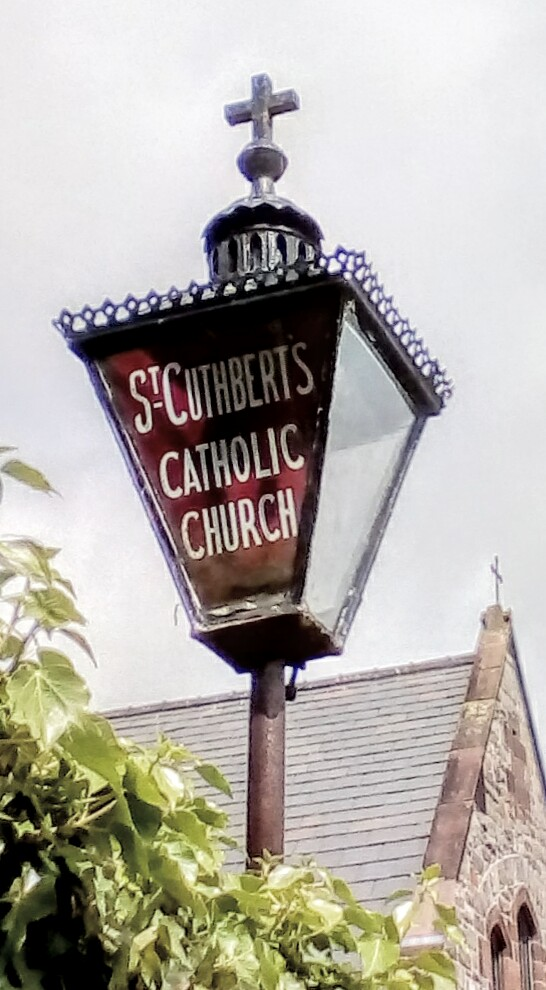 Lamp and standard at St Andrew and St Cuthbert Catholic church, Kirkcudbright.